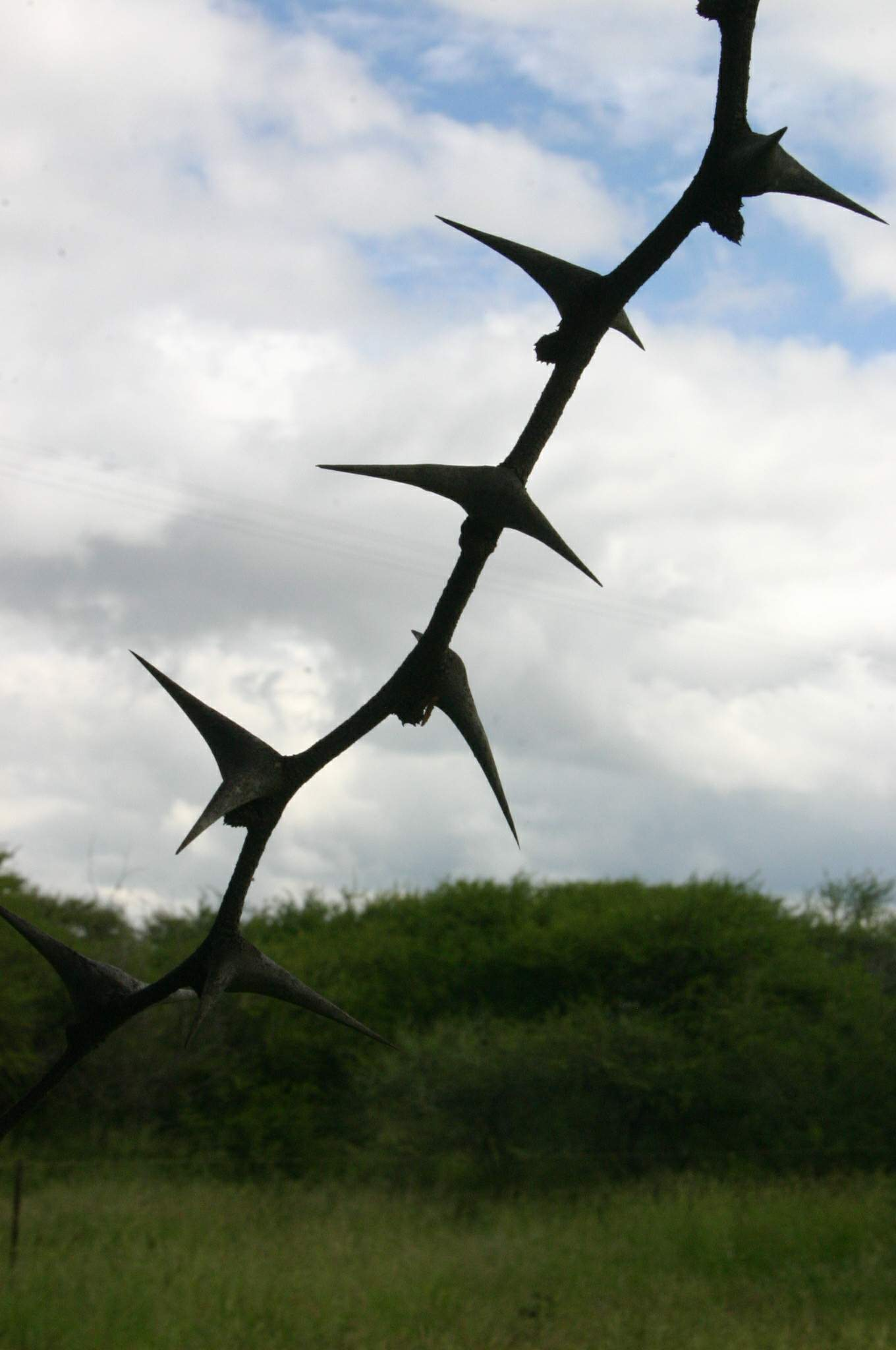 Acacia erioloba thorns, near Potgietersrust, Transvaal, South Africa